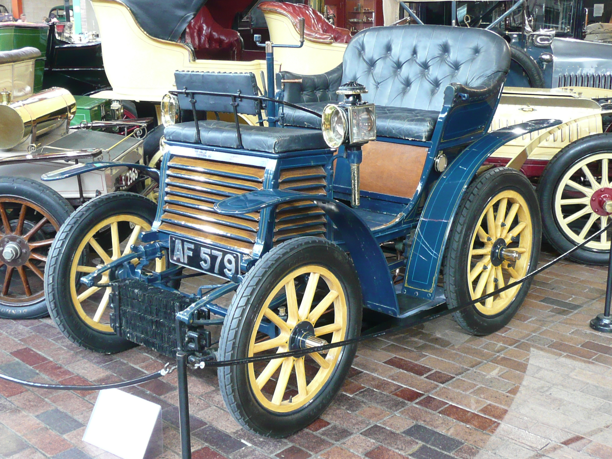 1899 F.I.A.T. 3,5HP, National Motor Museum in Beaulieu.